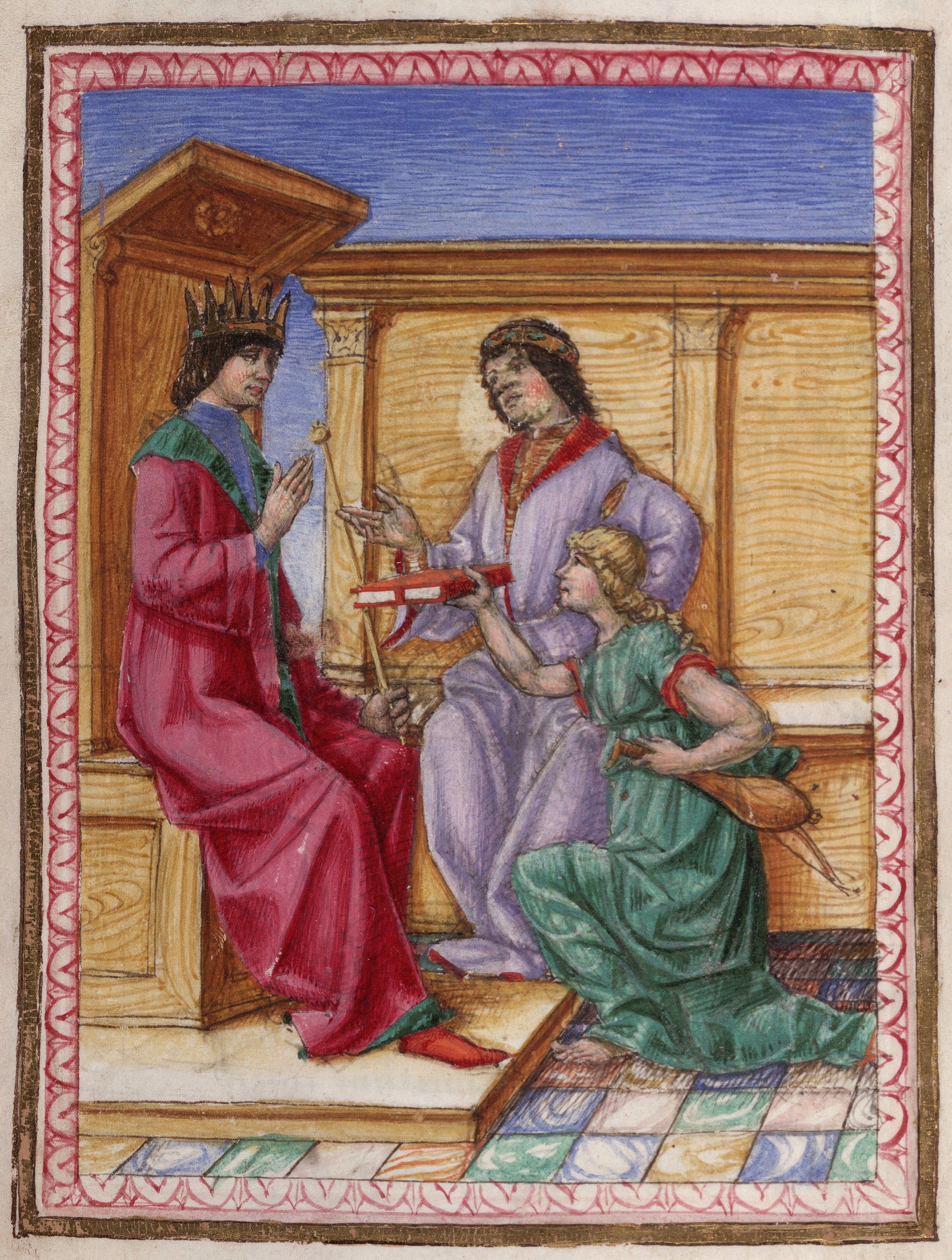 The muse of Lodovico Lazzarelli presents a manuscript of Fasti christianae religionis to King Ferrante, (Ferdinand I of Aragon, king of Naples and Sicily). The manuscript (Beinecke MS 391) was dedicated to the king and his son Alphonse, Duke of Calabria (Alfonso II of Naples).